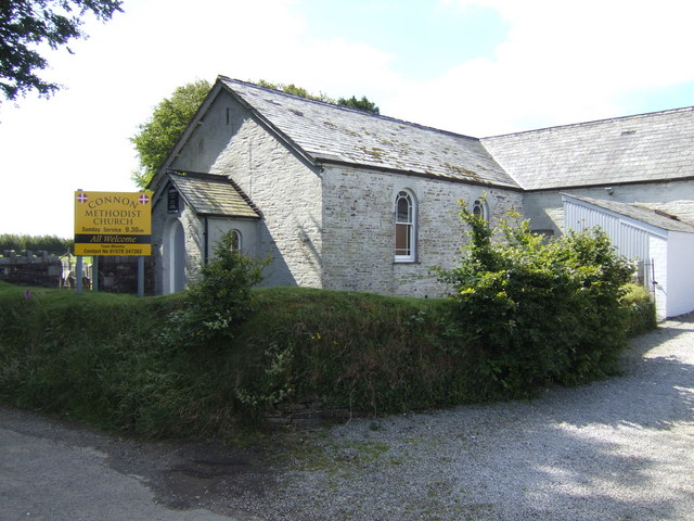 Connon Methodist Church Serving a large area of country to the south-west of Liskeard.